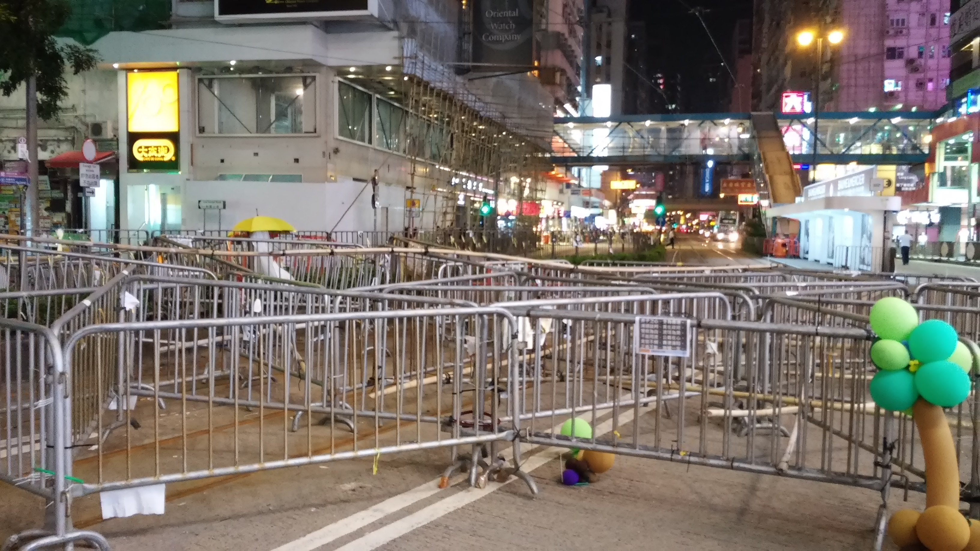 HK CWB night Hennessy Road 鐵馬陣 Oct 2014